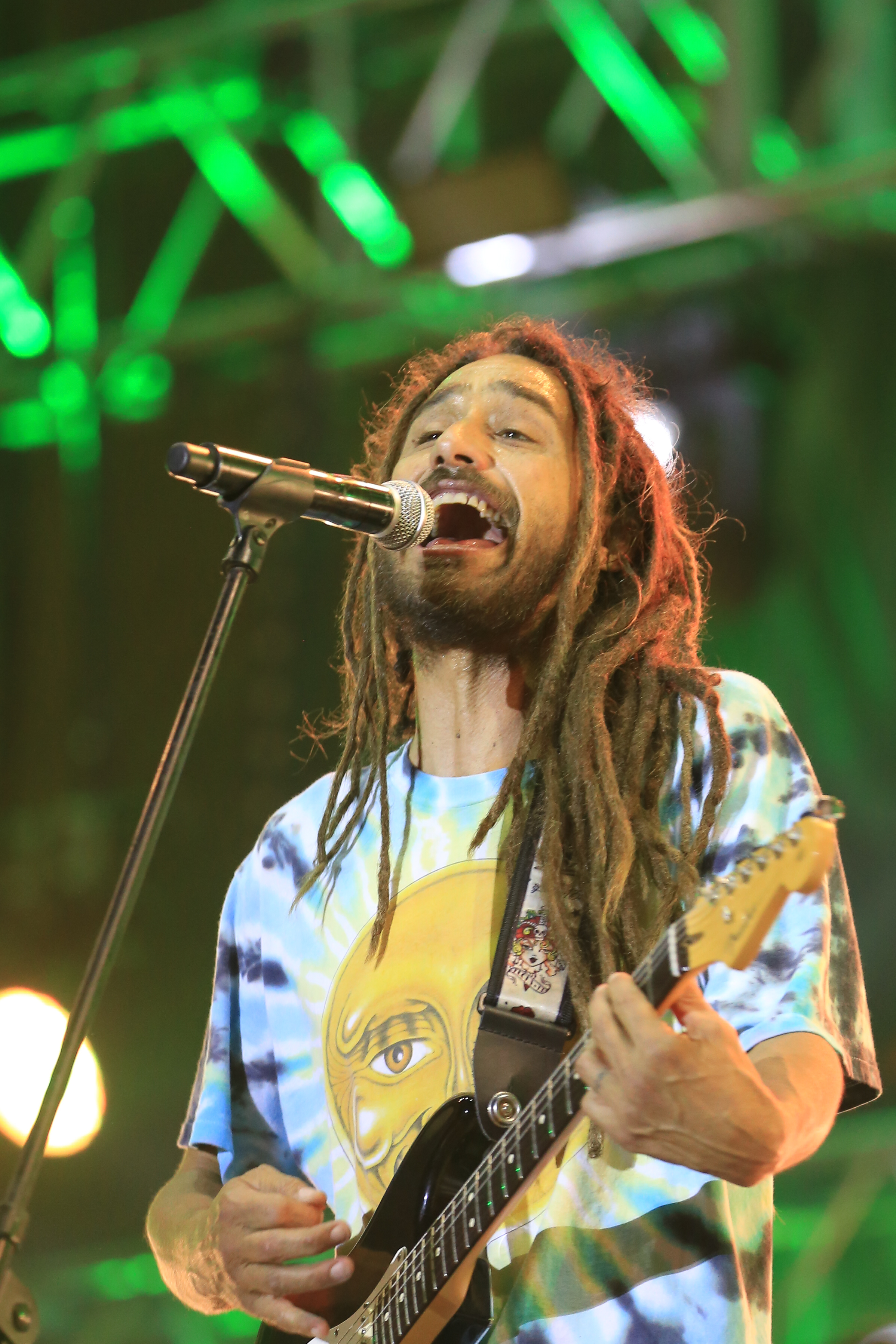 Pol'and'Rock Festival in 2018.